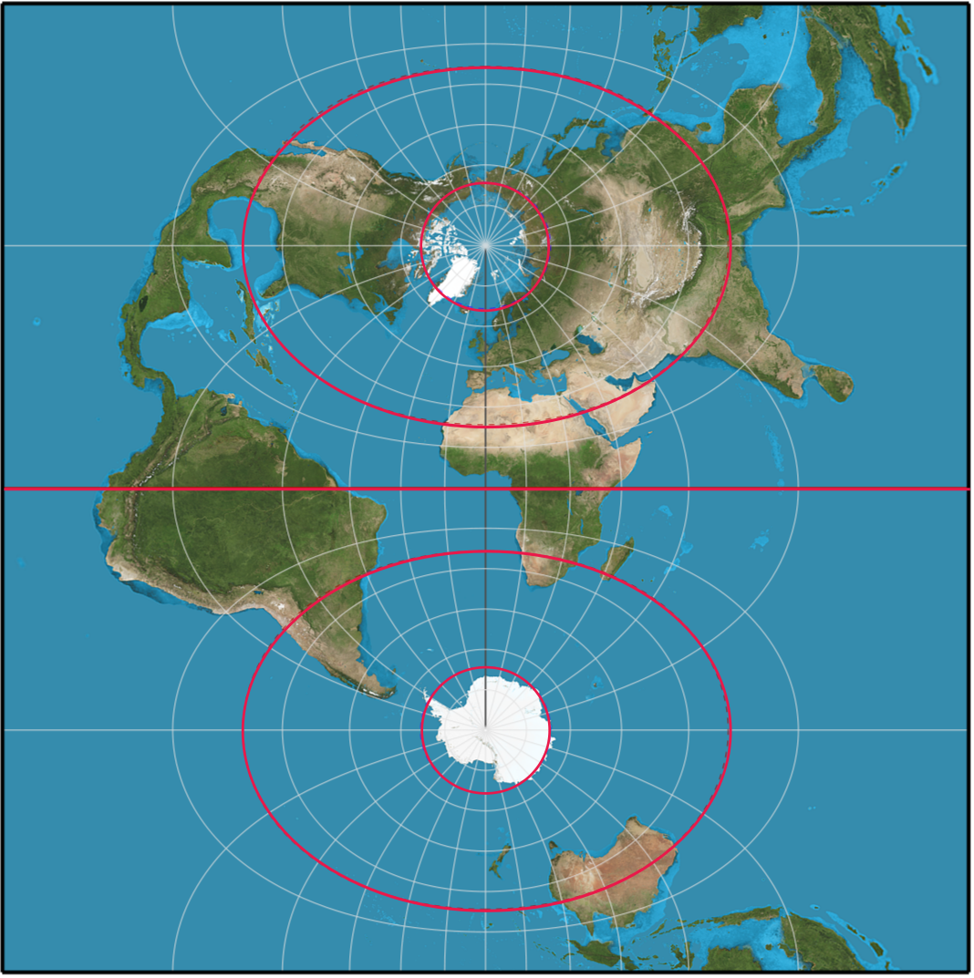 The transverse Mercator projection on the sphere. It is truncated where x equals (plus/minus) pi (in units of earth radius). Produced using Geocart from [1]. Enhanced named parallels.